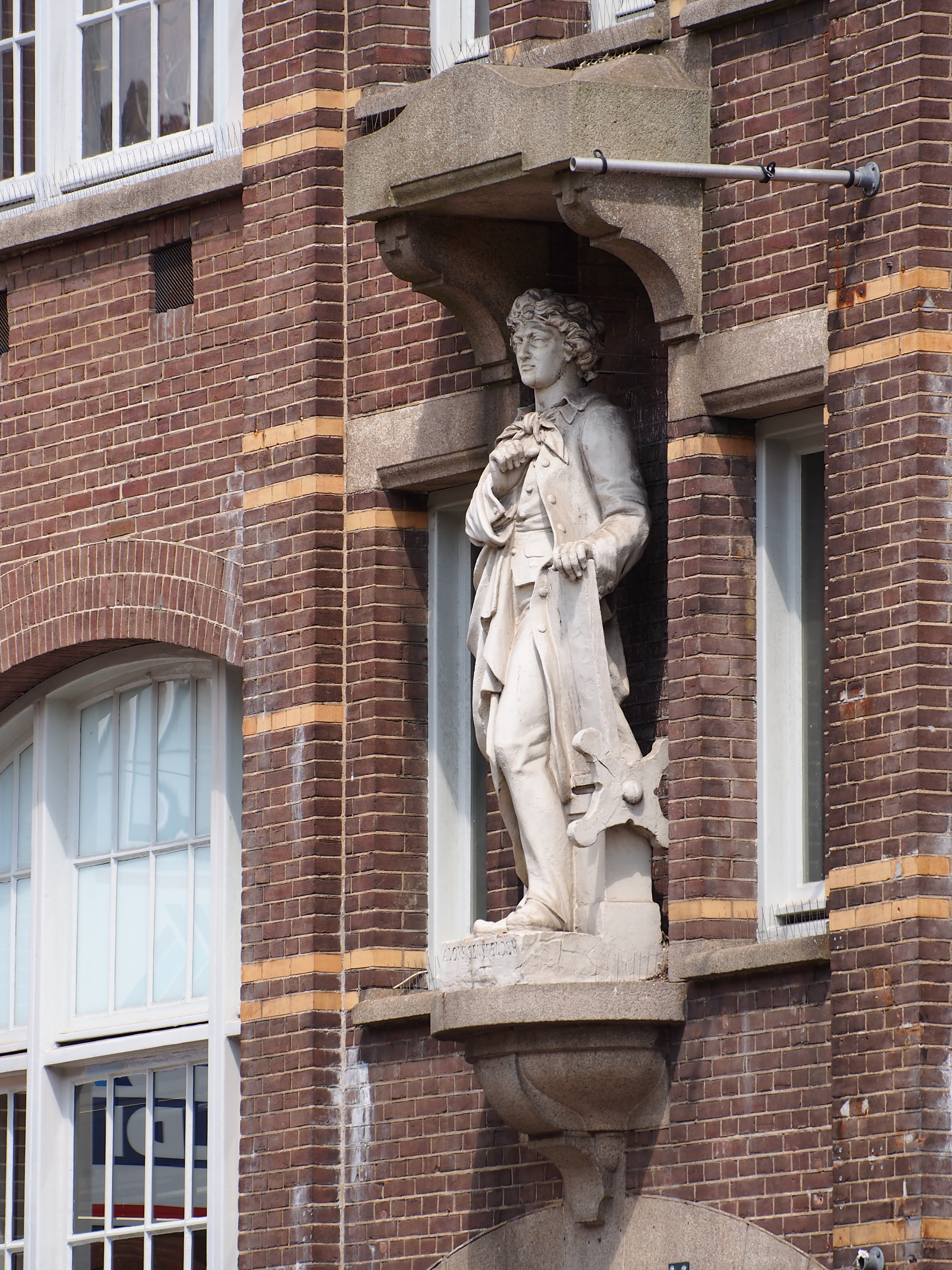 Photographed in Amsterdam.